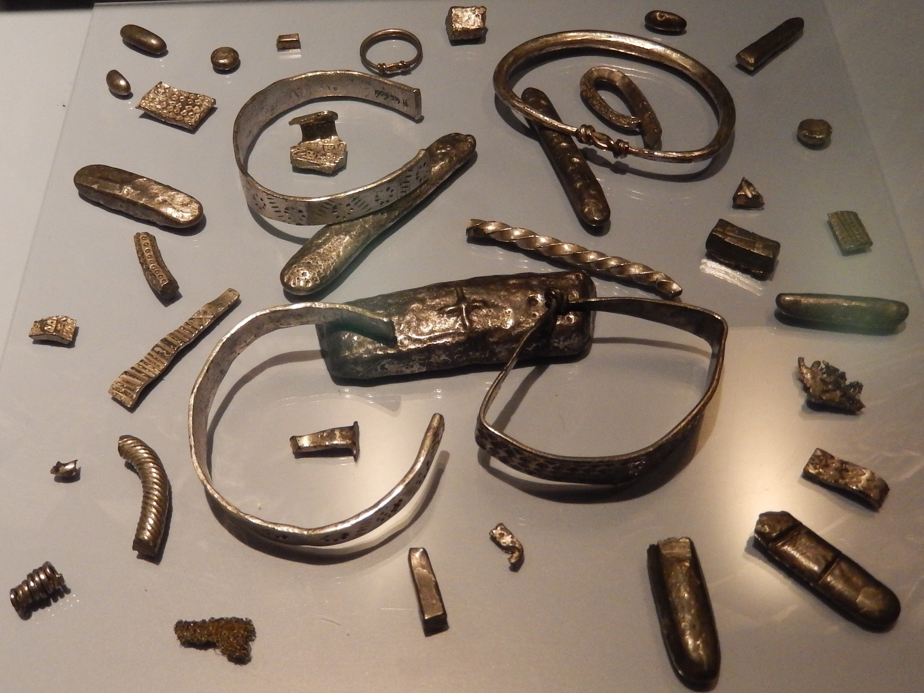 Pieces from the Cuerdale Hoard, a Viking hoard of more than 8,500 pieces of silver jewellery, ingots and coins found in 1840. Most of the hoard is held at the British Museum in London, but this part is held at the Ahmolean Museum in Oxford.